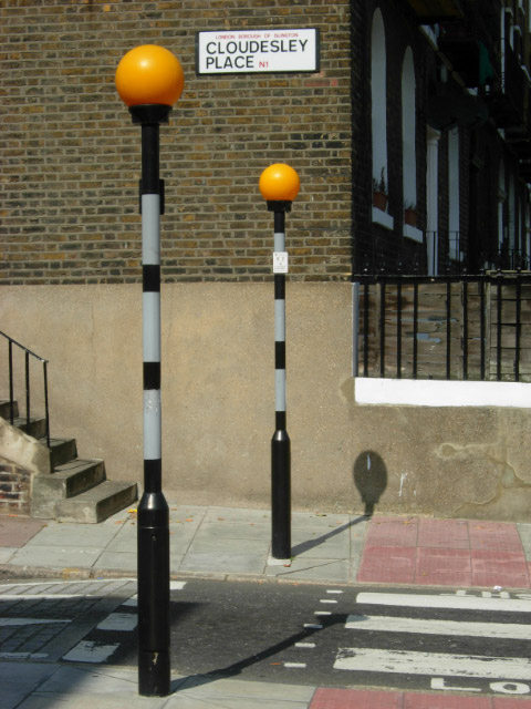 Cloudesley Place, Islington Traditional belisha beacons on Cloudesley Place at its junction with Liverpool Road. Belisha beacons were first introduced in 1934 by Leslie Hore Belisha, then Minister of Transport, but they are now less common than they once were.